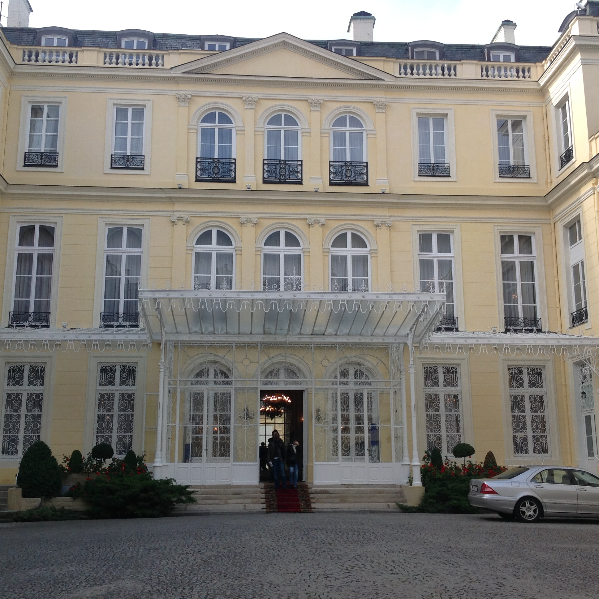 Exterior of the Hotel d'Estrees, residence of the Russian Ambassador to France, at 79 rue de Grenelle, 7th arrondissement, Paris